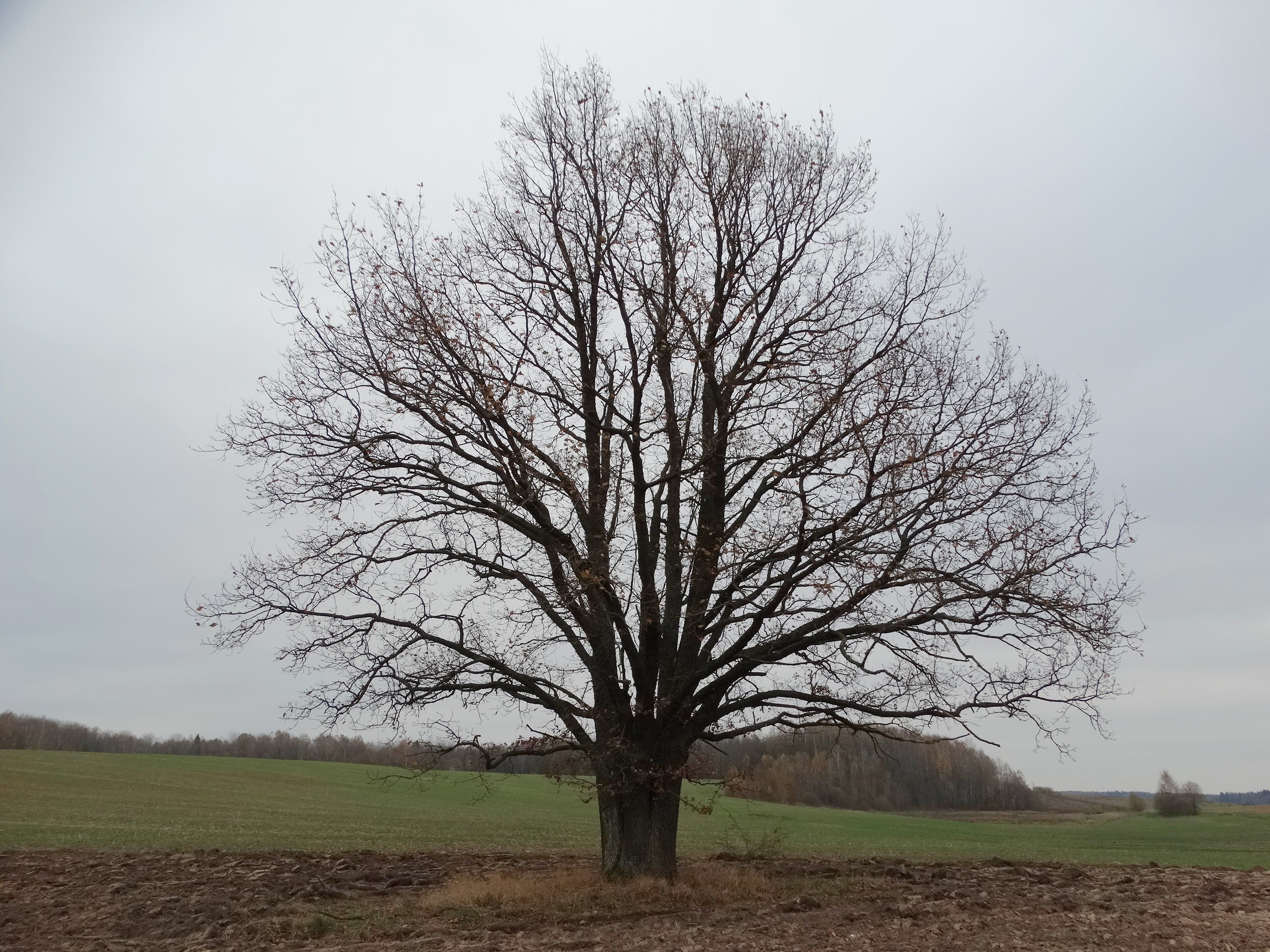 Oak near Svirplionys, Kaišiadorys District, Lithuania